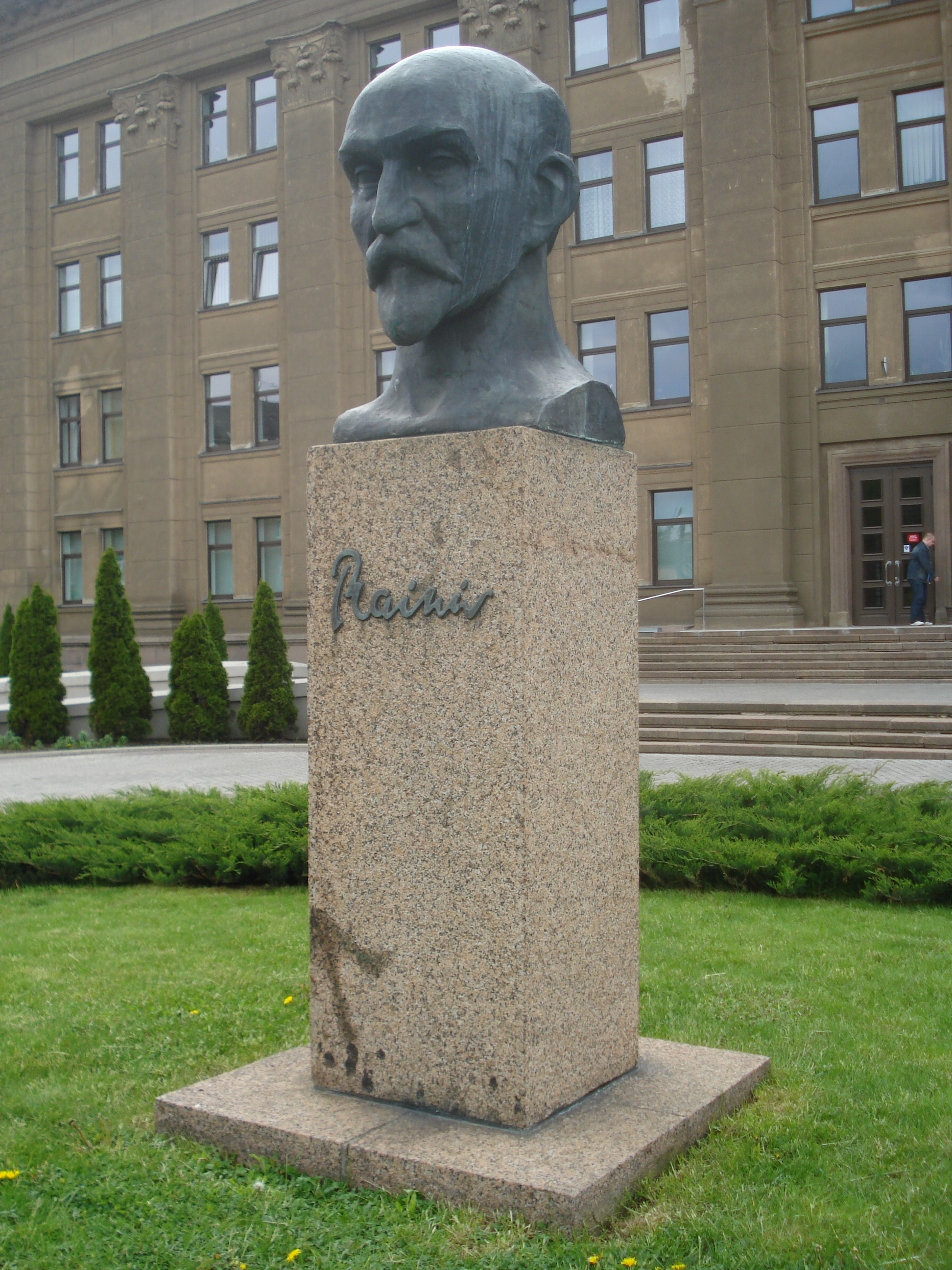 Bust of Jānis Rainis (Pliekšāns; 1865-1929), Latvian poet, playwright, translator, and politician in Daugavpils.